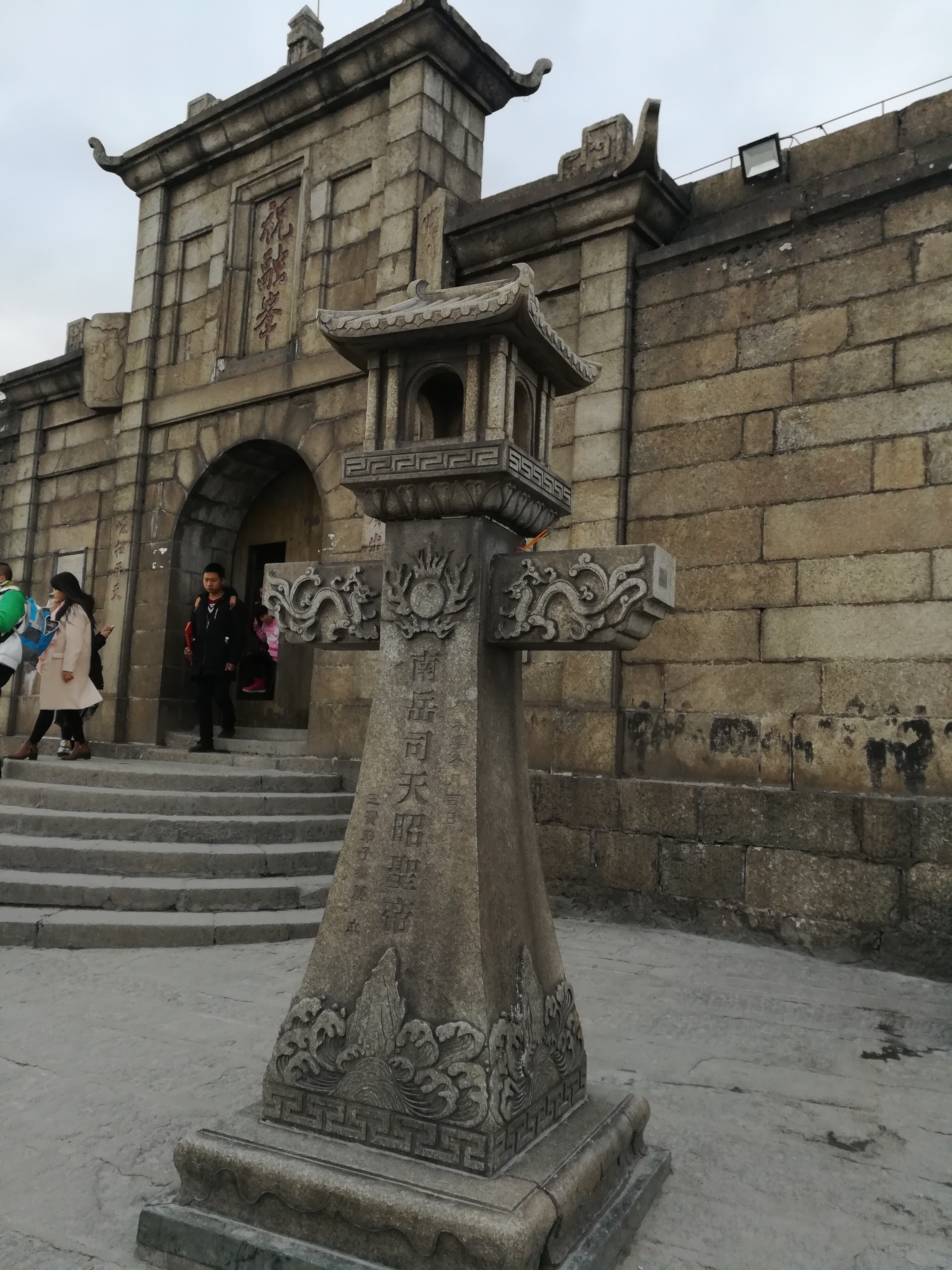 The Zhurong Hall at Zhurong Peak of Mount Heng (Hunan).